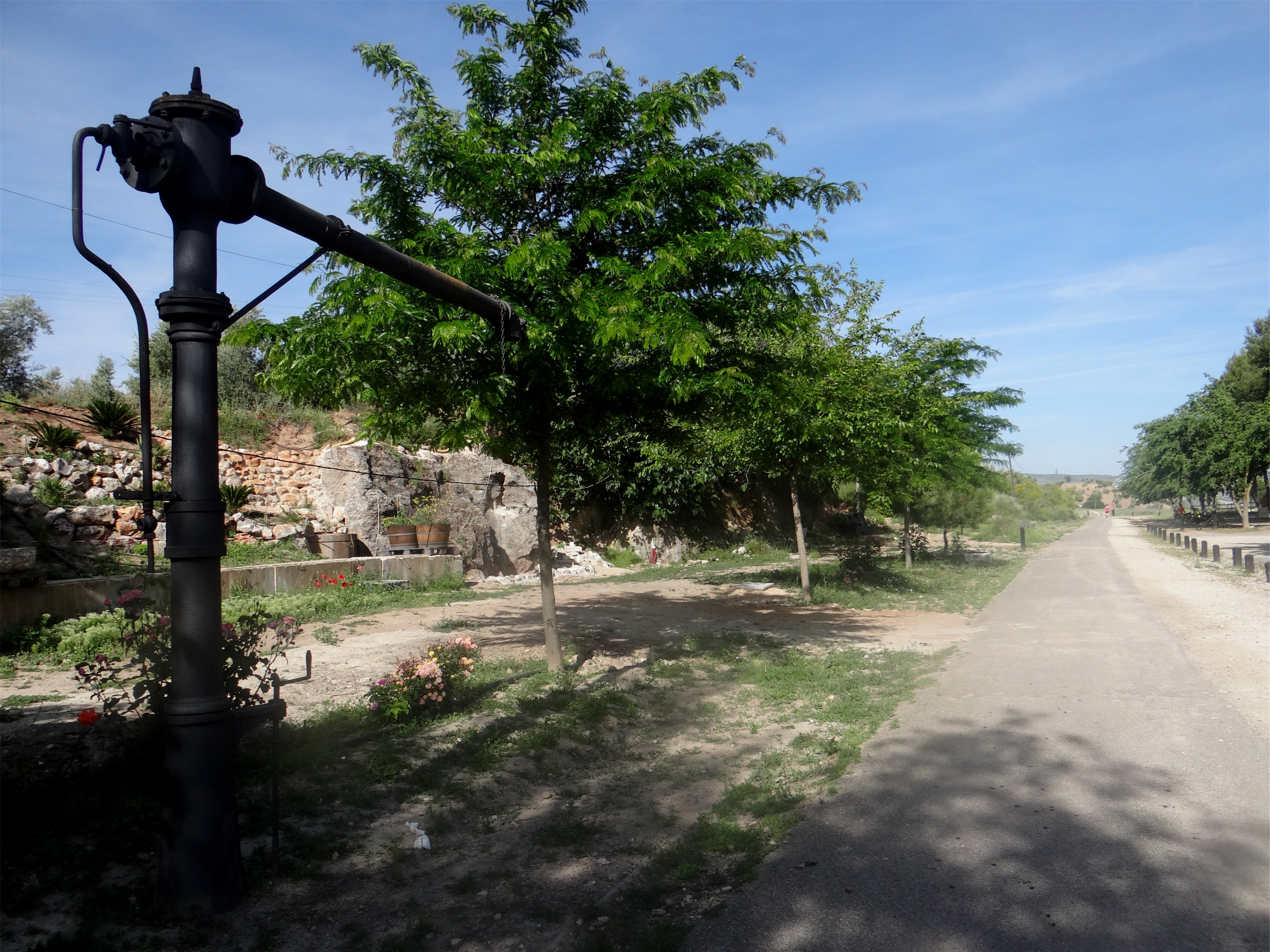 Old train station Luque, Andalusia, Spain. Via Verde de la Subbética.